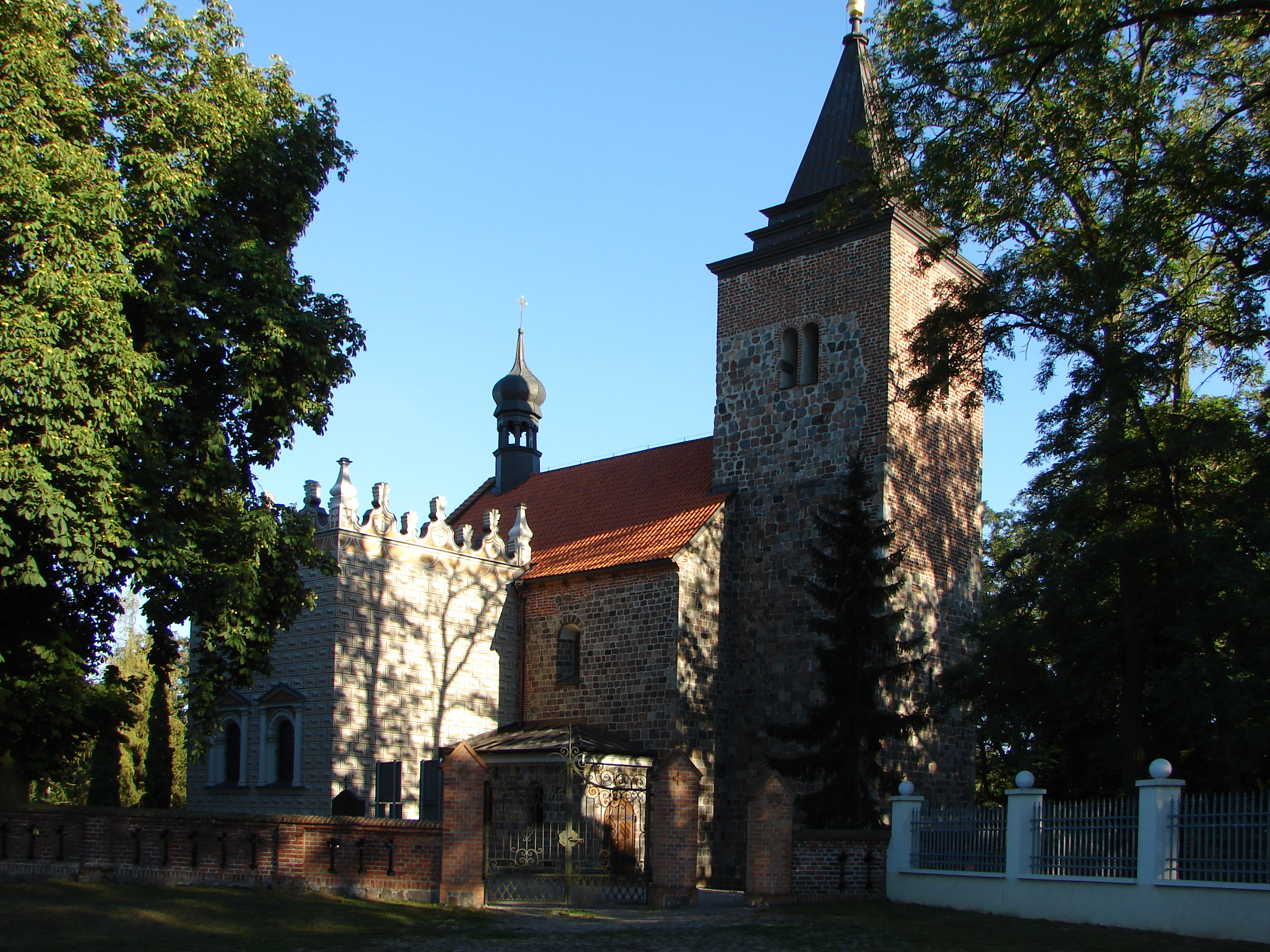 Kościelec, Gmina Pakość, Inowrocław County, Poland. Church of Saint Margaret. Was built in the late of 12th century.